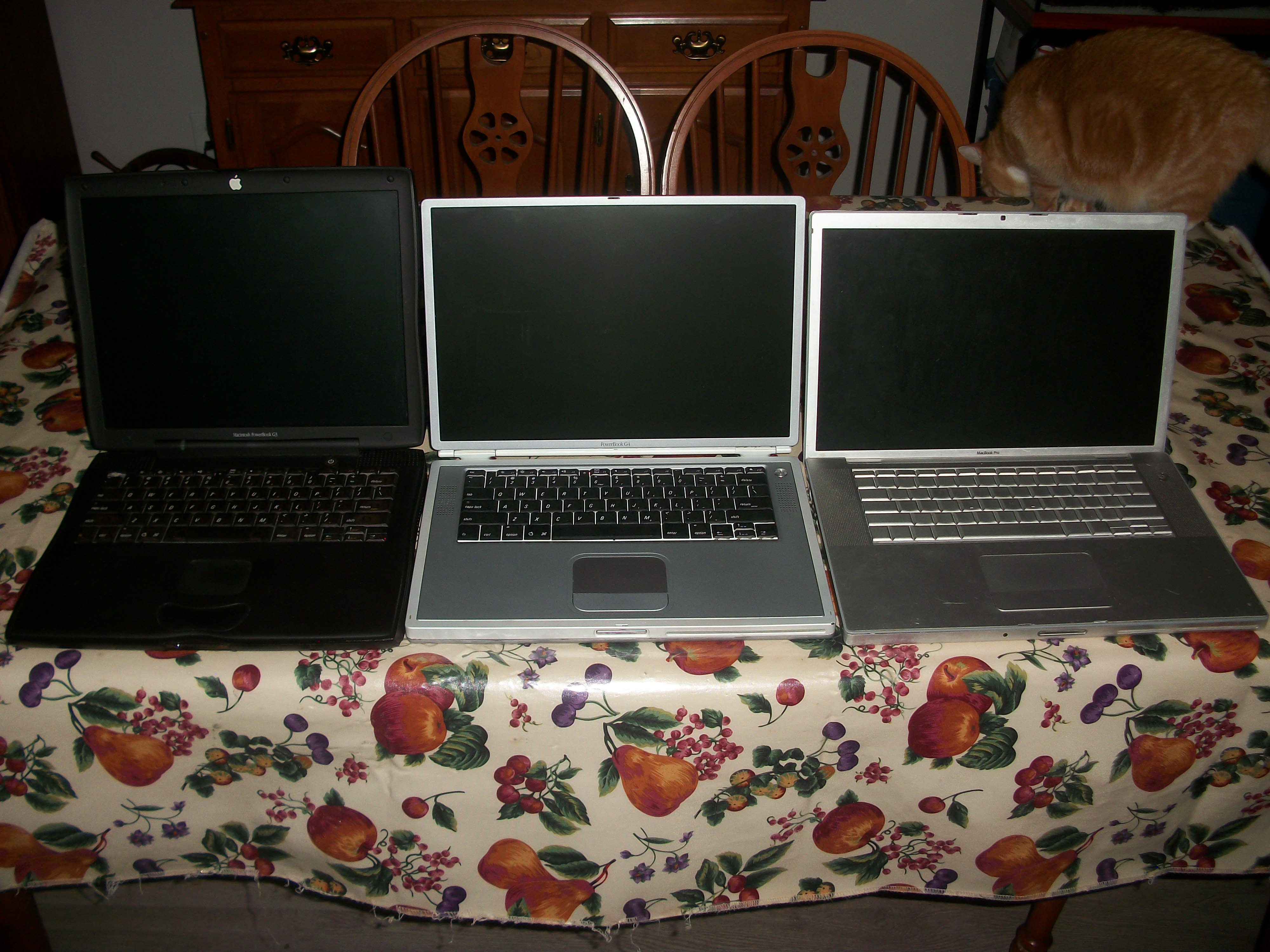 A comparison of a Lombard/Pismo PowerBook G3, a Mercury PowerBook G4, and a late 2006 MacBook Pro.